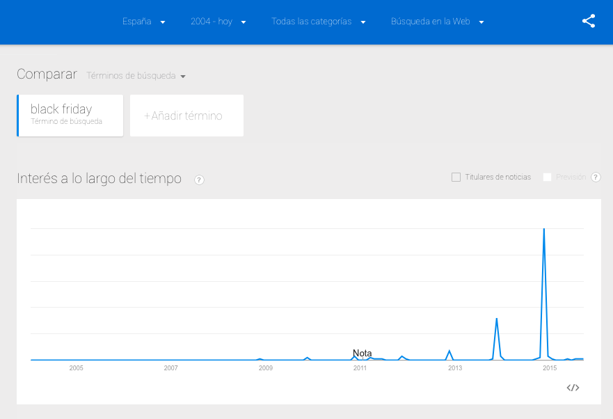 Evolución del Black Friday en España